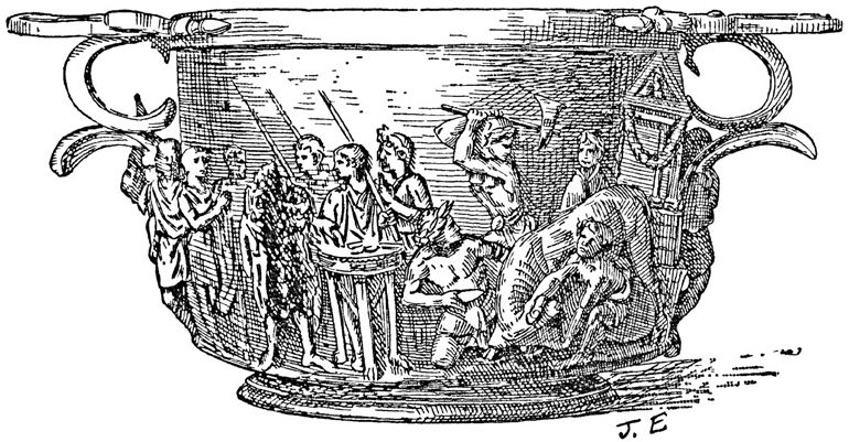 Sacrifice of a bull on the Capitole during the triumph of Tiberius in 8 or 7 B.C. on a silver cup of Boscoreale.